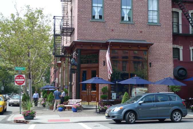 The Light Horse Tavern is located at 199 Washington St. in downtown Jersey City near the Sugar House condos and 77 Hudson. The restaurant features an incredible atmosphere and an excellent menu.